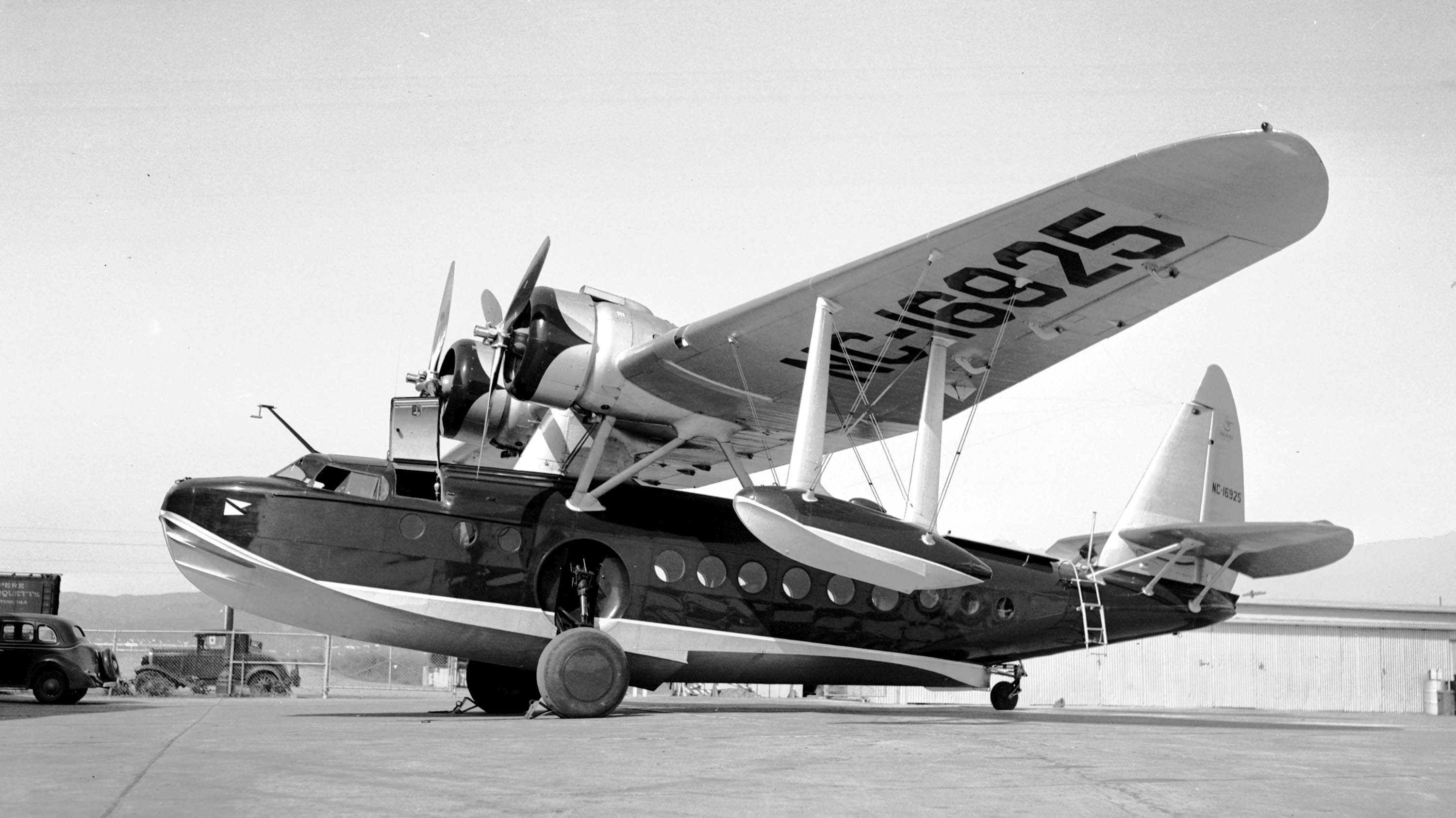 This 12-passenger amphibian was owned by William K. Vanderbilt of New York City when it was photographed at Oakland, CA, in 1938. George Vanderbilt had a Douglas Dolphin 12, and Harold Vanderbilt had a Lockheed 14-N. (This photo replaces an earlier low resolution version).